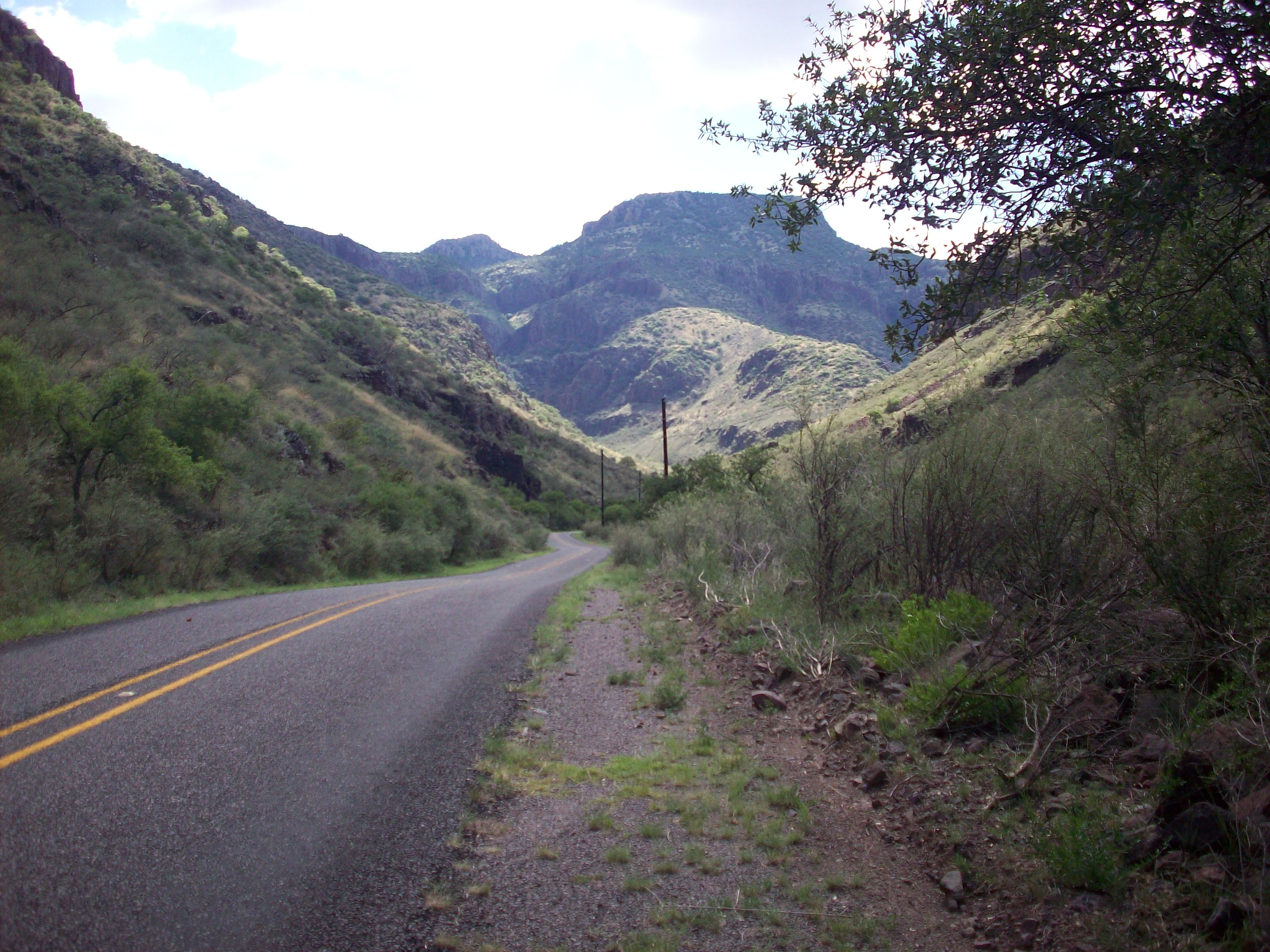 Scene from Ranch to Market Road 1832 in the Davis Mountains in northeastern Jeff Davis County, Texas